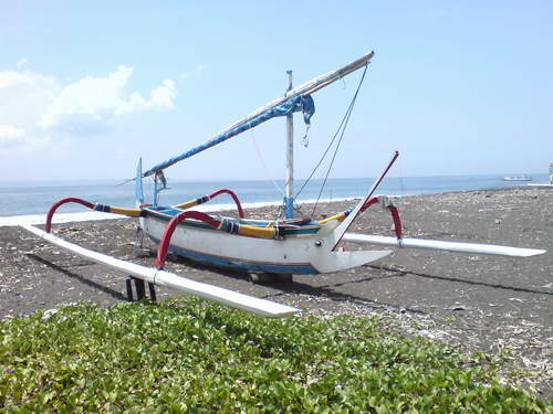 Balinese jukung boat on the beach